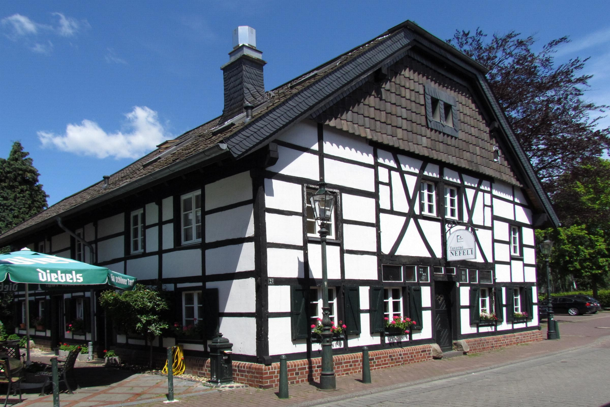 This is a photograph of an architectural monument.It is on the list of cultural monuments of Korschenbroich